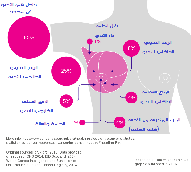 The largest proportion of breast cancer cases occur in the upper-outer quadrant of the breast, with much smaller proportions in the upper-inner, lower-outer and lower-inner quadrants, and the central portion of the breast (2010-2012). Based on a Cancer Research UK graphic published in 2016.